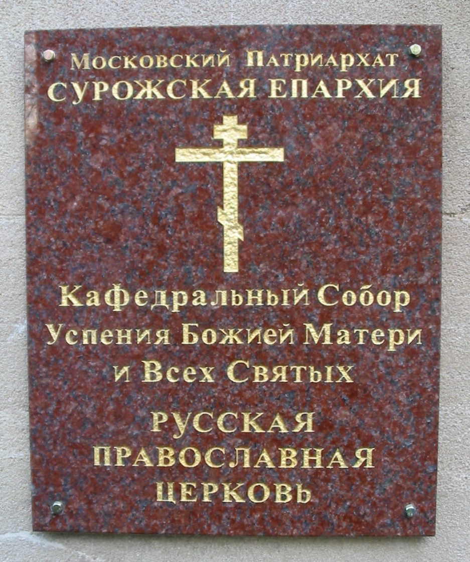 London